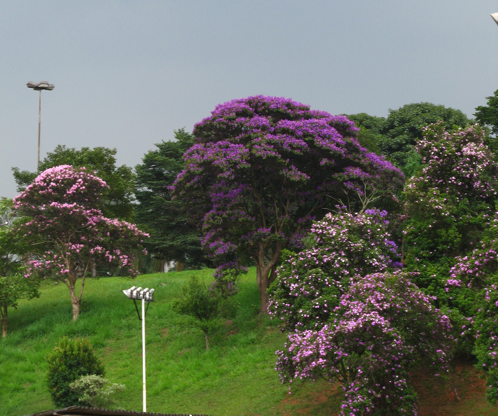 lovely Tibouchinas, Sao Paulo, Park Ceret. Brazilian trees